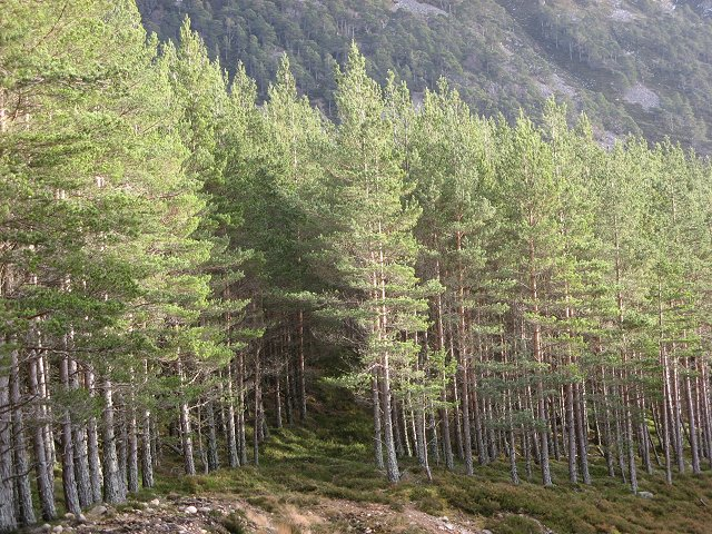 Inshriach Forest Young scots pines beneath the crags of Creag Mhigeachaidh.